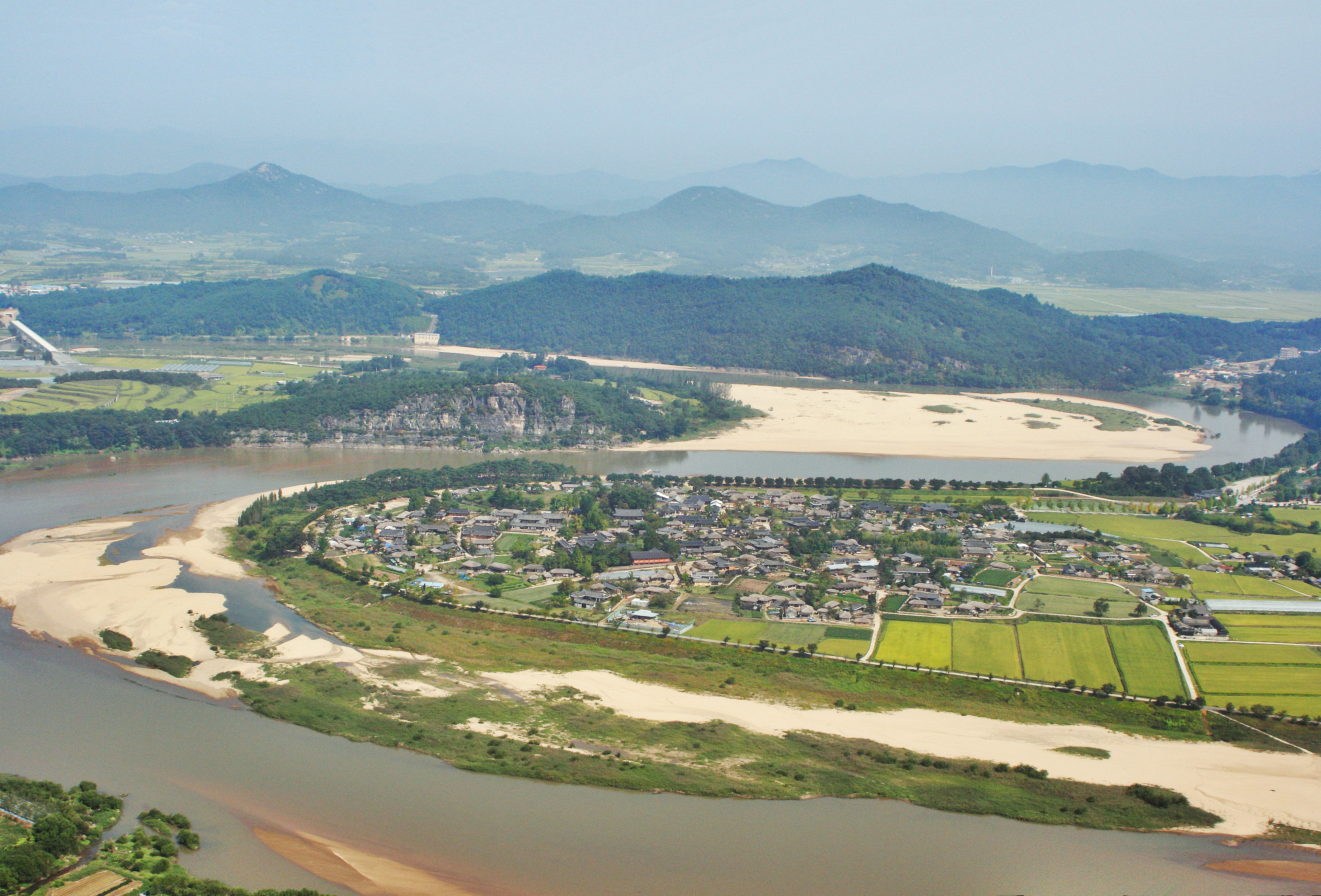 A bird's eye view of the Hahoe Folk Village